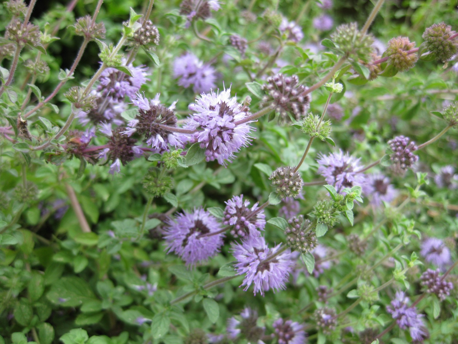 Photographed at the Royal Botanic Gardens Sydney (Australia) in January